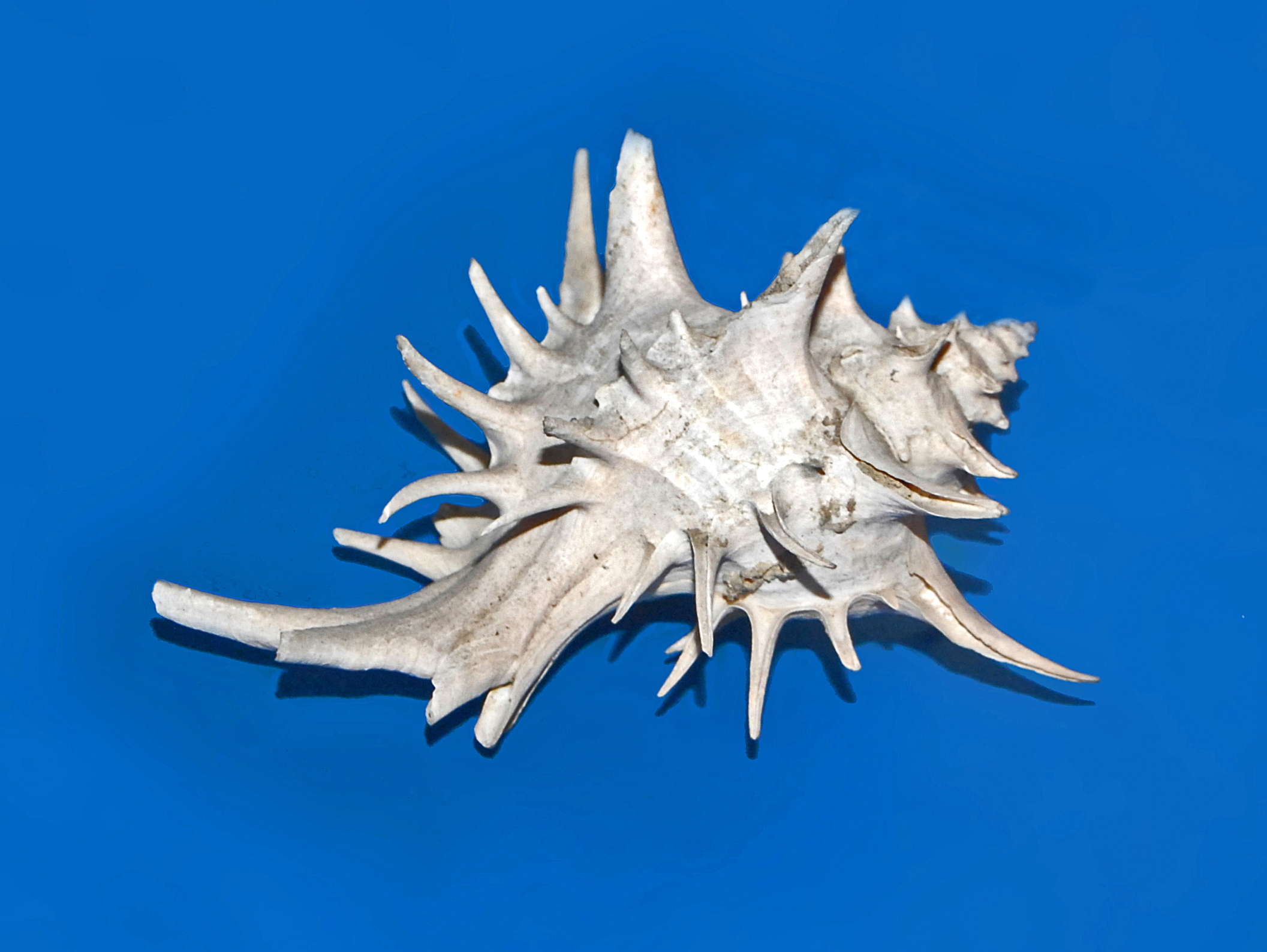 Shell of Poirieria zelandica from New Zealand, on display at the Museo Civico di Storia Naturale di Milano